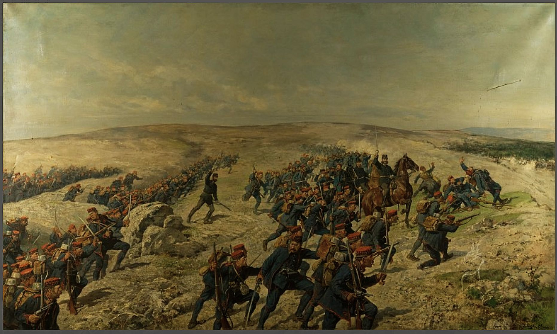 Assault of austro-hugarian soldiers from Dalmatia on Livno, Bosnia-Herzegovina, 1878.